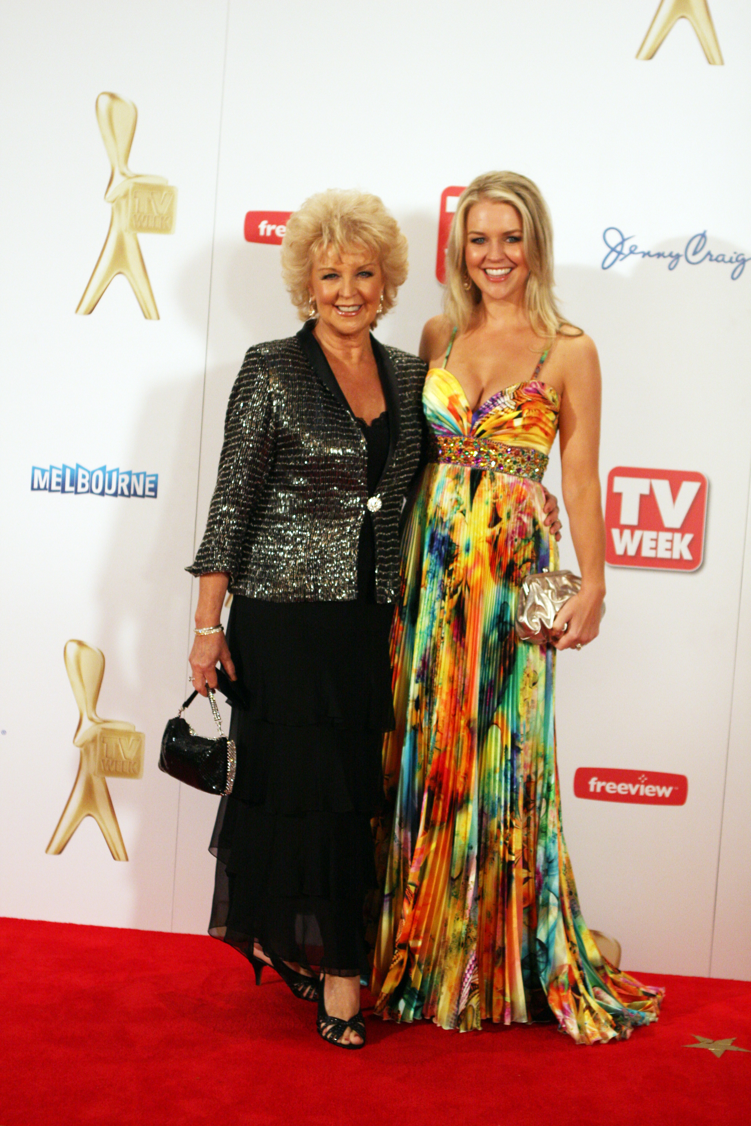 L to R: Patti Newton and Lauren Newton at the 2011 Logie Awards